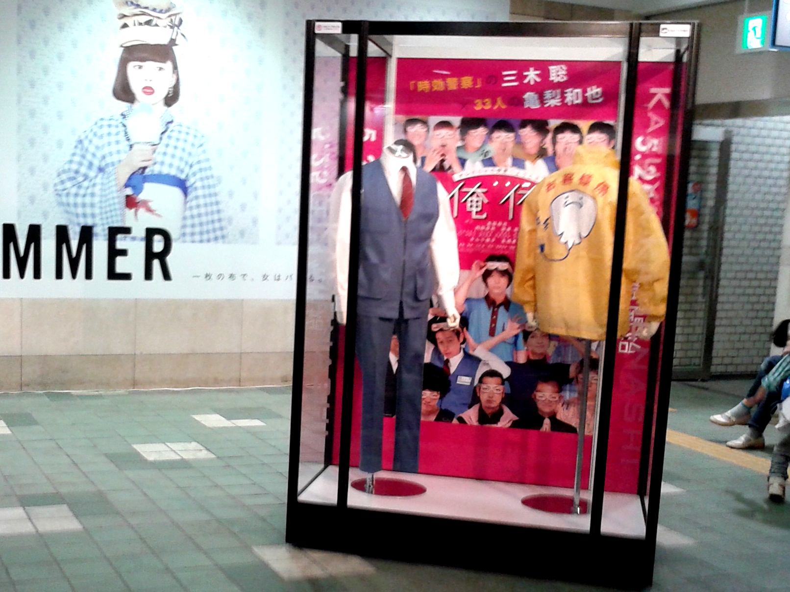 Outfit worn by Kazuya Kamenashi in the 2013 Japanese film It's Me, It's Me (Ore Ore)